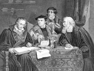 dt. Reformatoren Luther Menchton Pomeranus und Cruciger